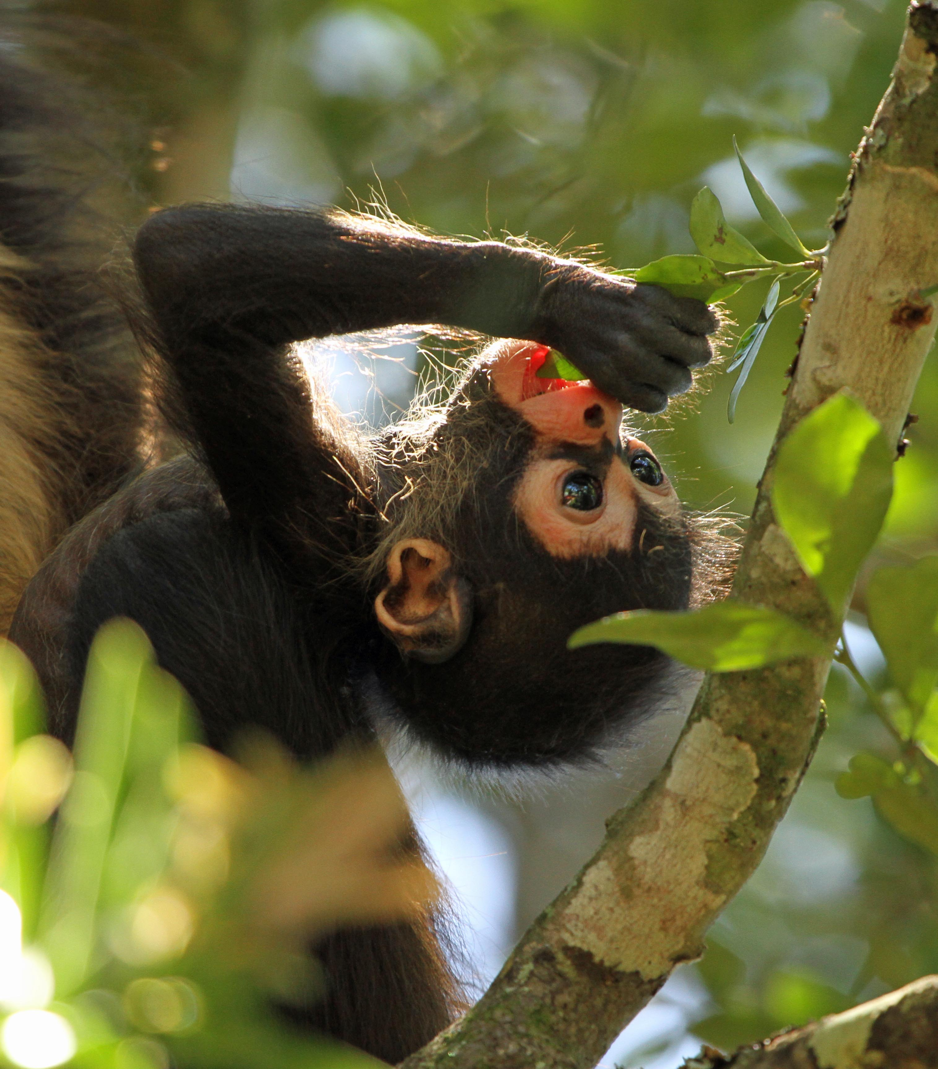 Baby spider monkey